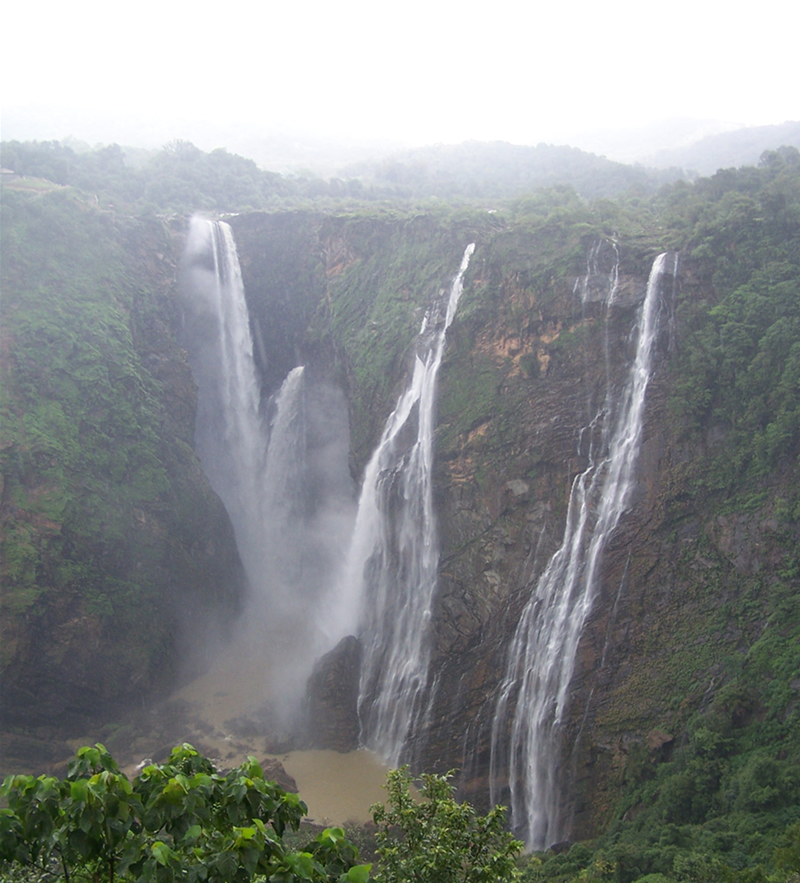 Jog Falls, Shimoga District, Karnataka, India. Taken by Kodak Z740 Digital Camera.